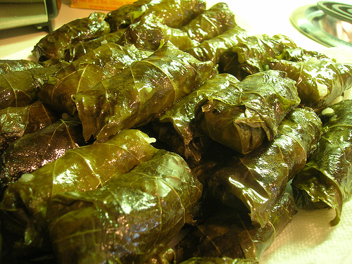 Leaf Sarma.